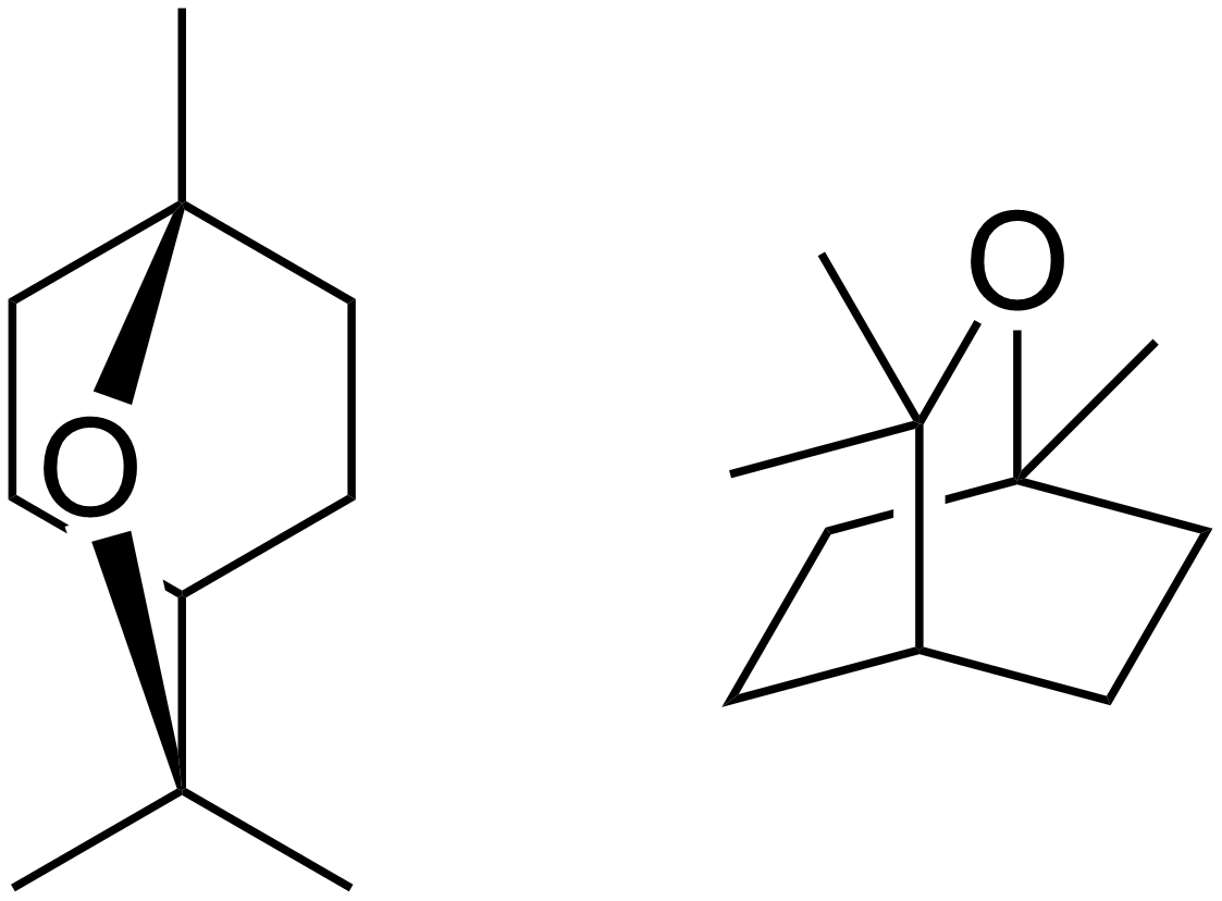 Original text: Chemical structure of eucalyptol, created with ChemDraw